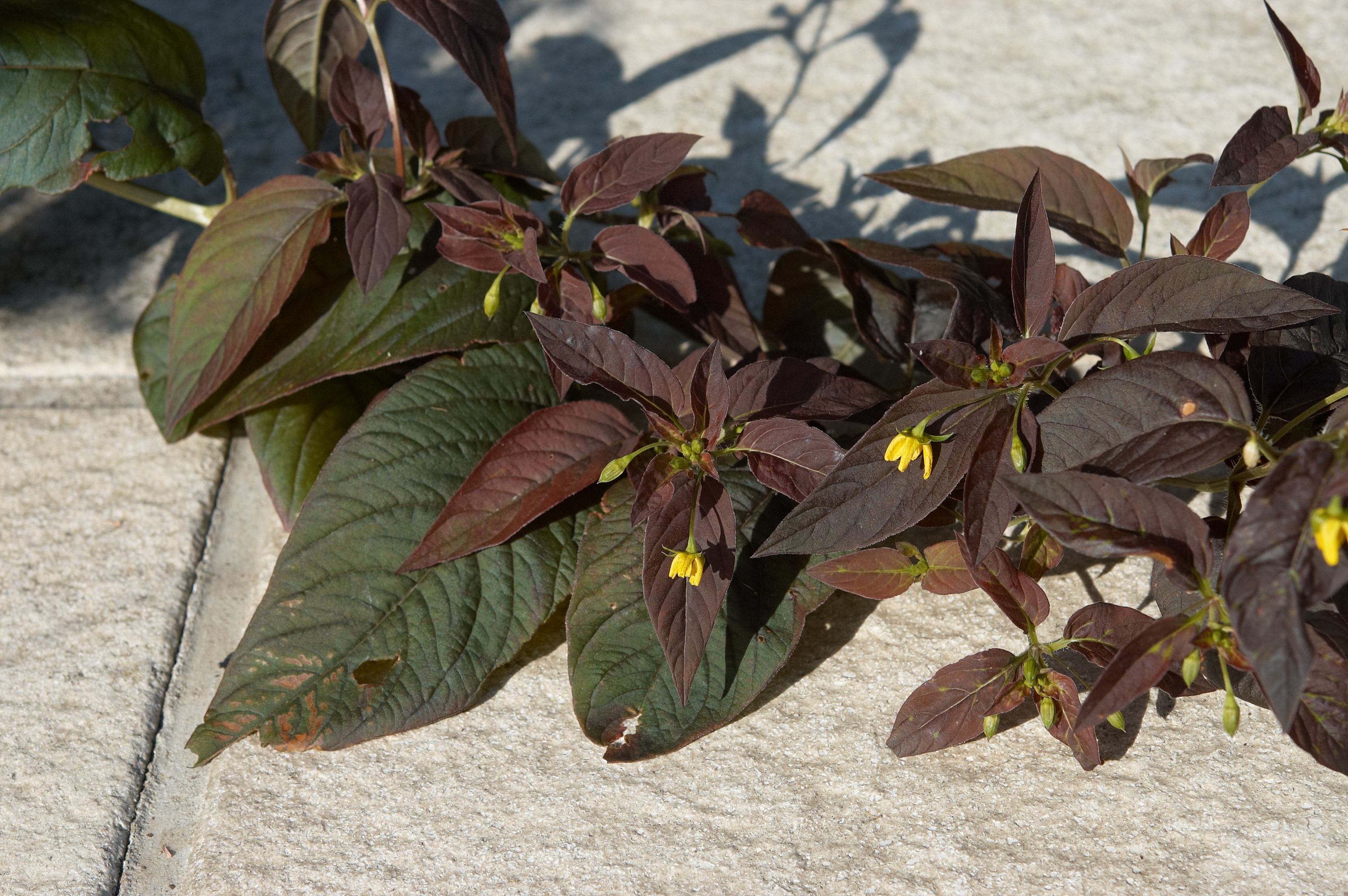 Lysimachia ciliata 'Firecracker'